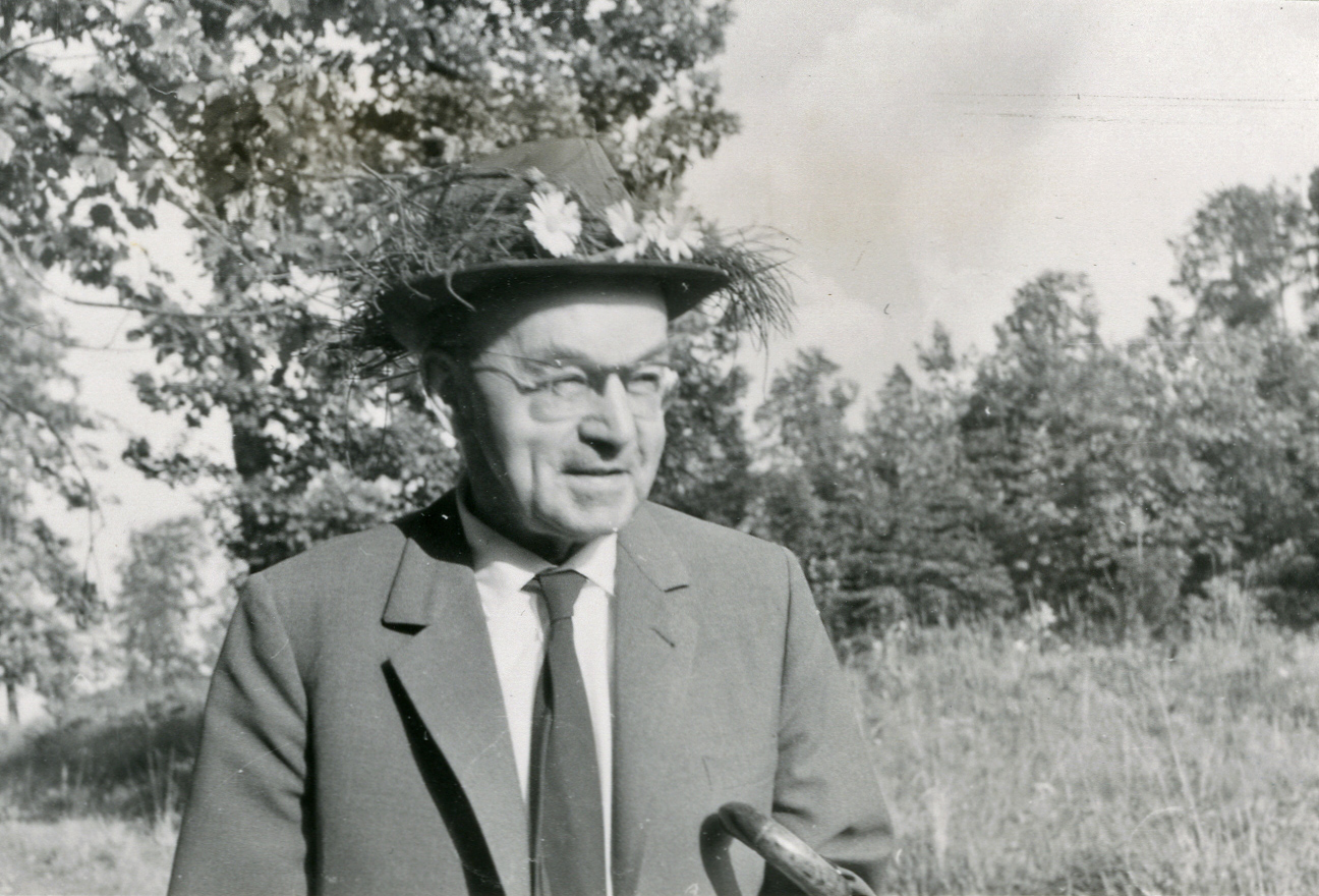 The geologist Walter Hoppe 1962 June 25 at the Riechheimer Berg near Weimar